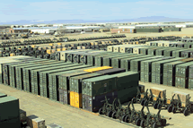 Picture of the USAMMA Reserve Component Hospital Decrement mission at Sierra Army Depot